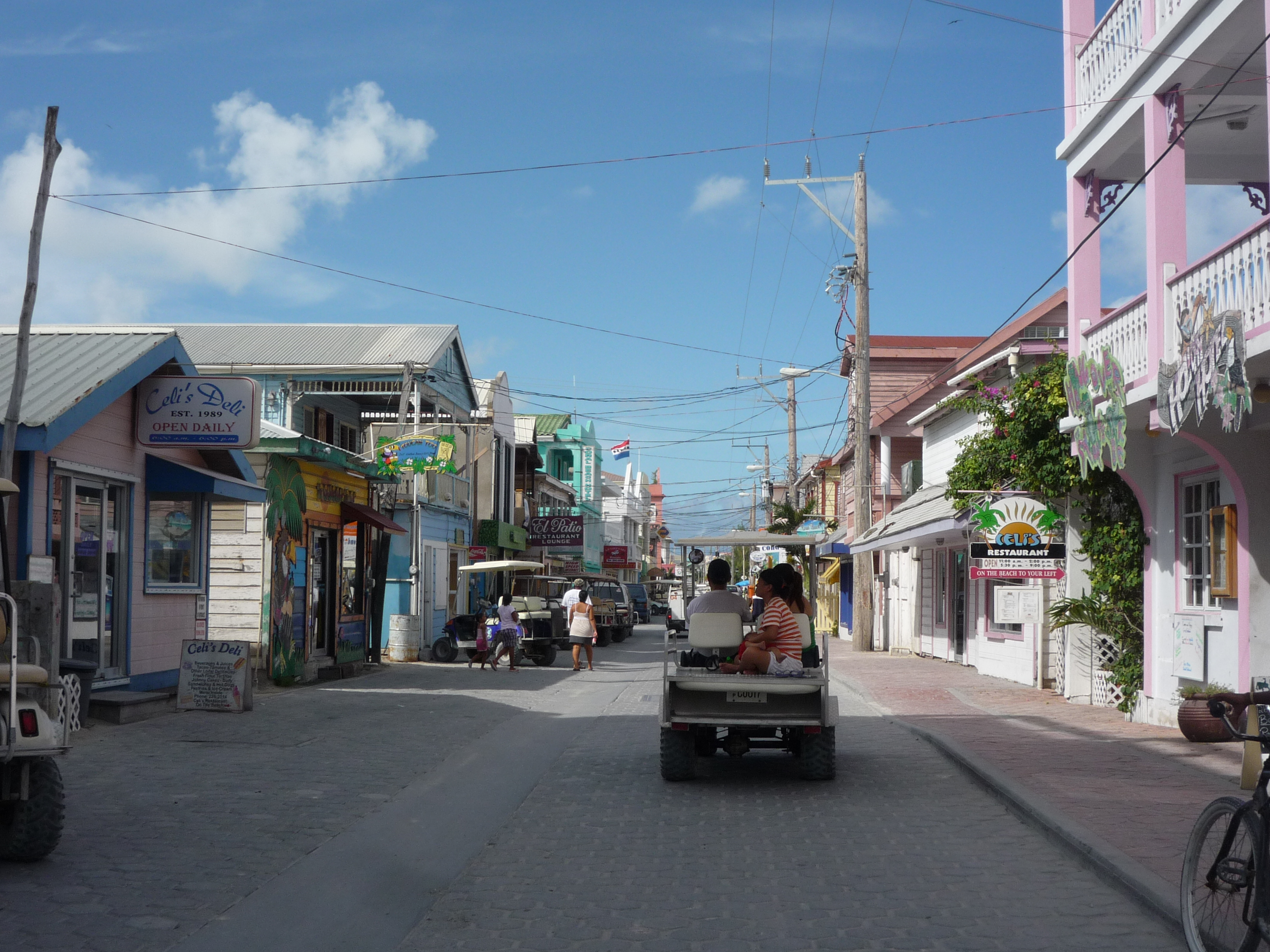 Downtown San Pedro, Belize